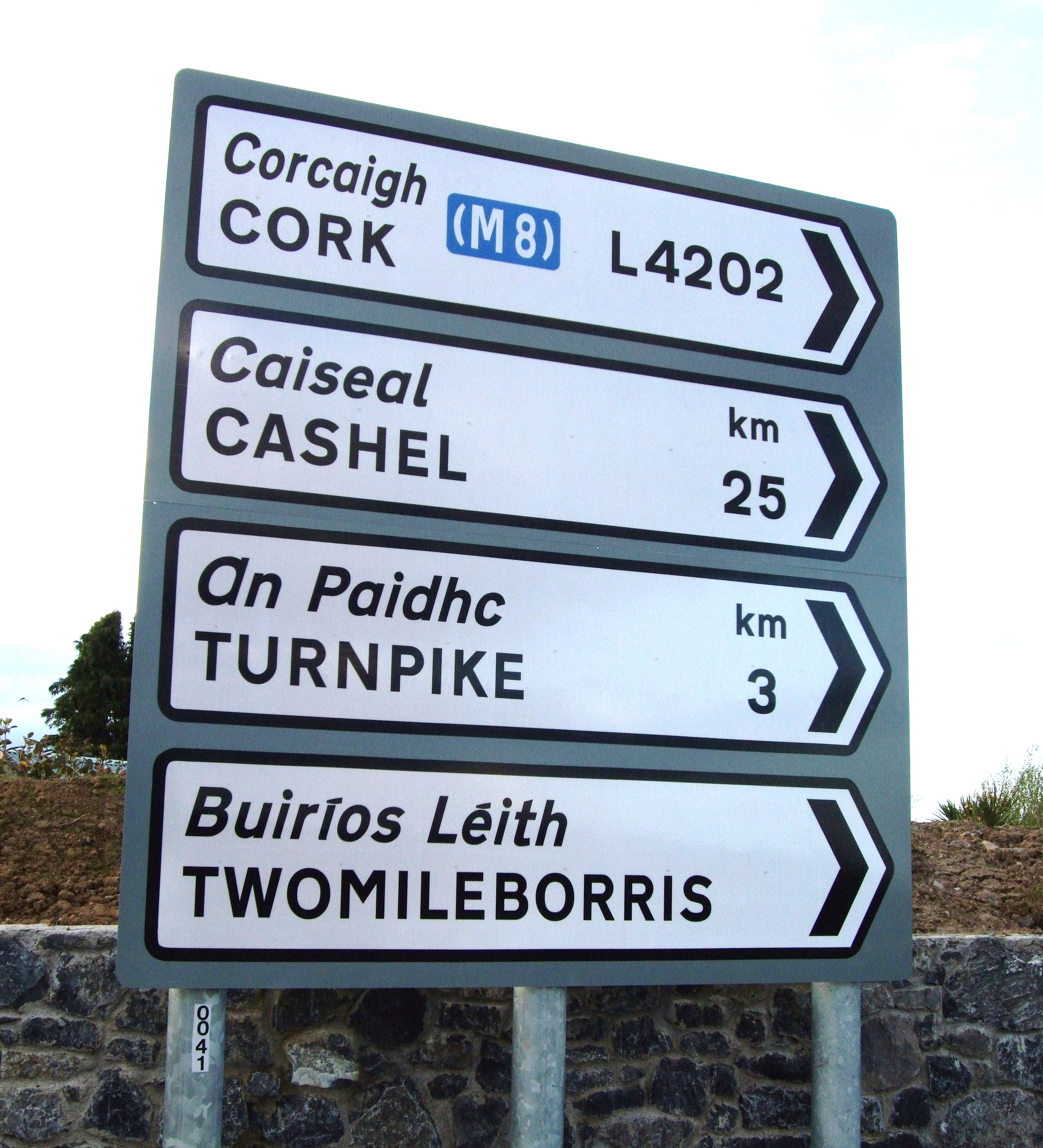 New signage at Two-Mile Borris, County Tipperary